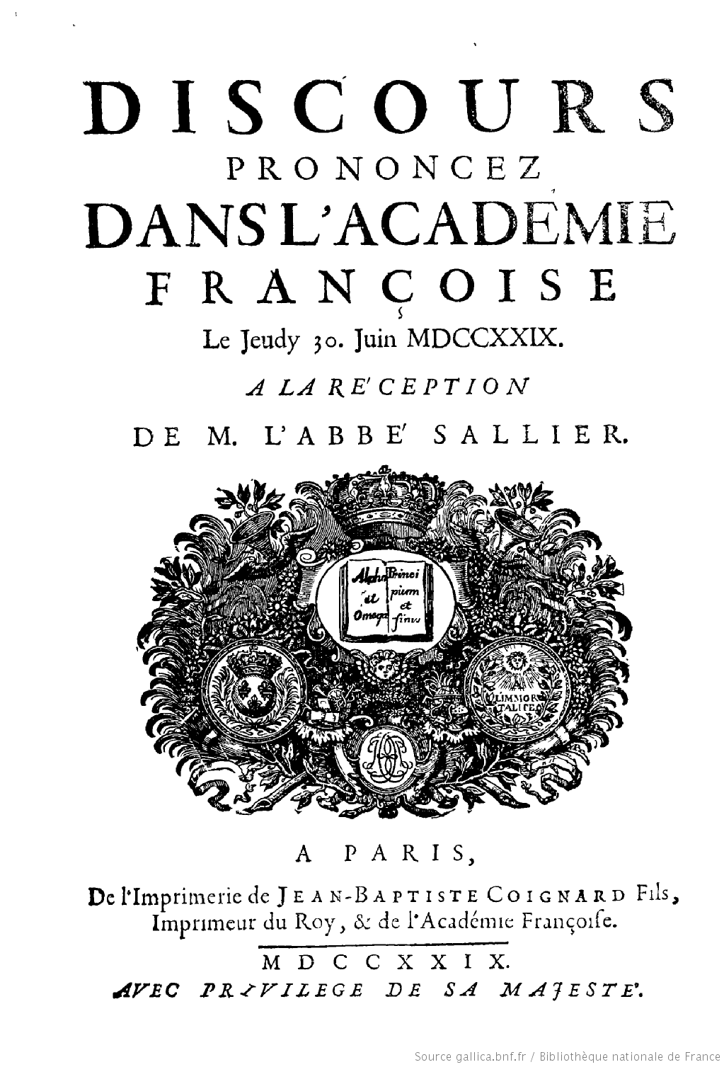 Discours prononcez dans l'Académie françoise le jeudy 30 juin MDCCXXIX, à la réception de M. l'abbé Sallier -impr. de J.-B. Coignard (Paris)-1729